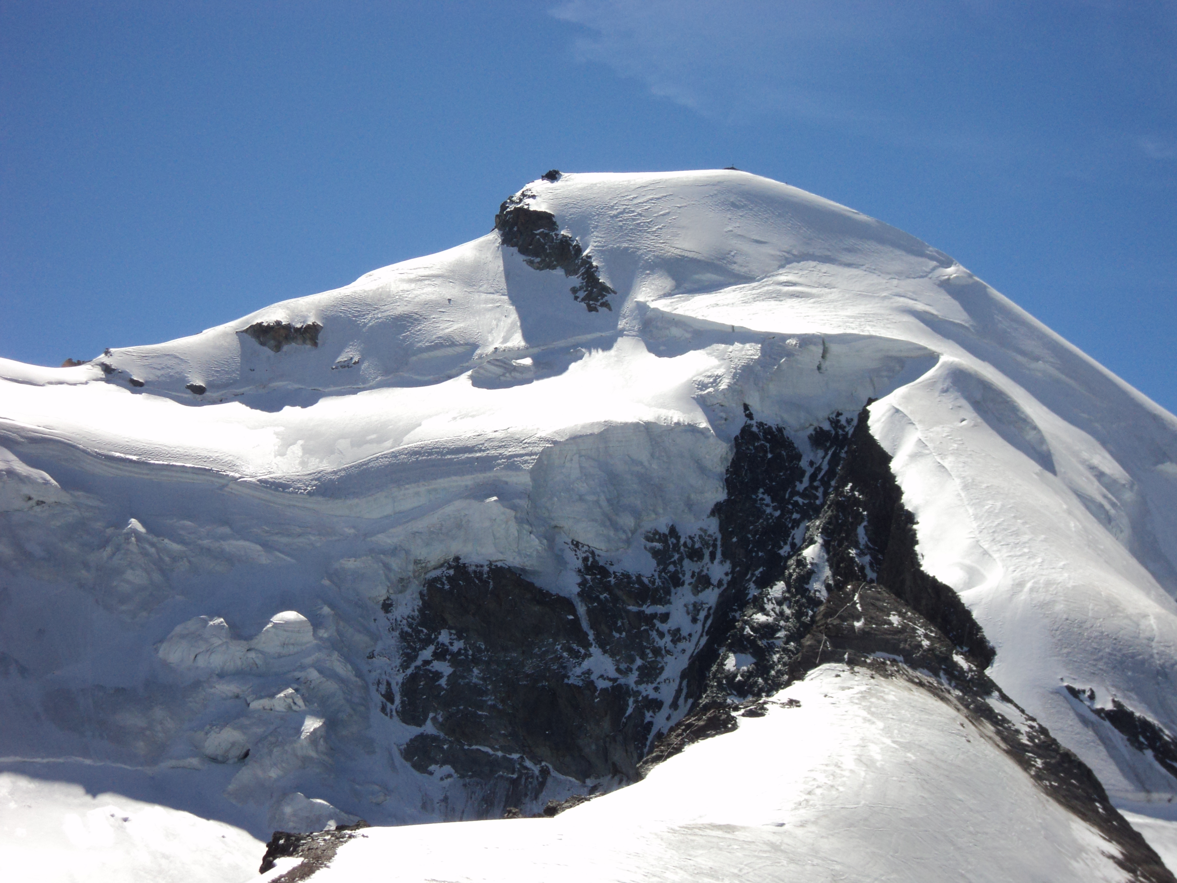 Allalinhorn from Mittelallalin. Mischabelhörner. Pennine alps